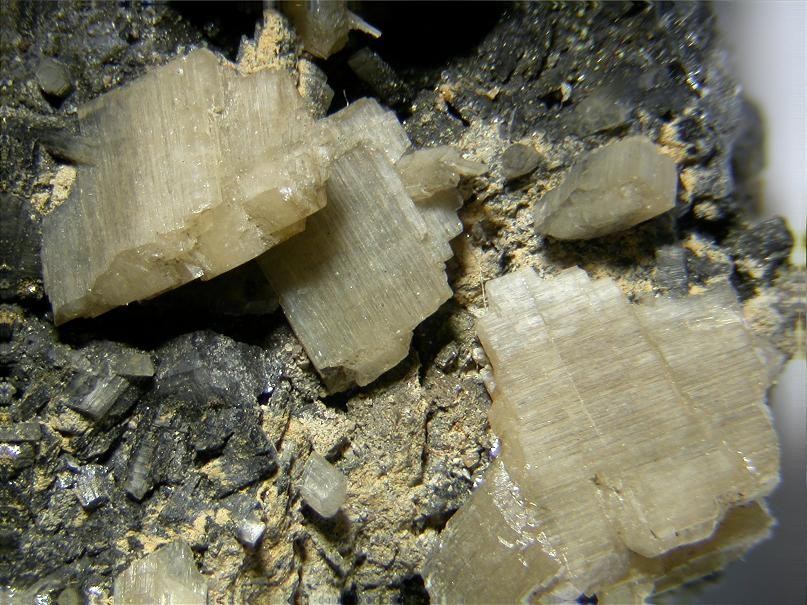 Cerussite Locality: Trzebionka mine, Trzebinia, Chrzanów District, Małopolskie, Poland Field of view 8 mm. Specimen and photo Leon Hupperichs.